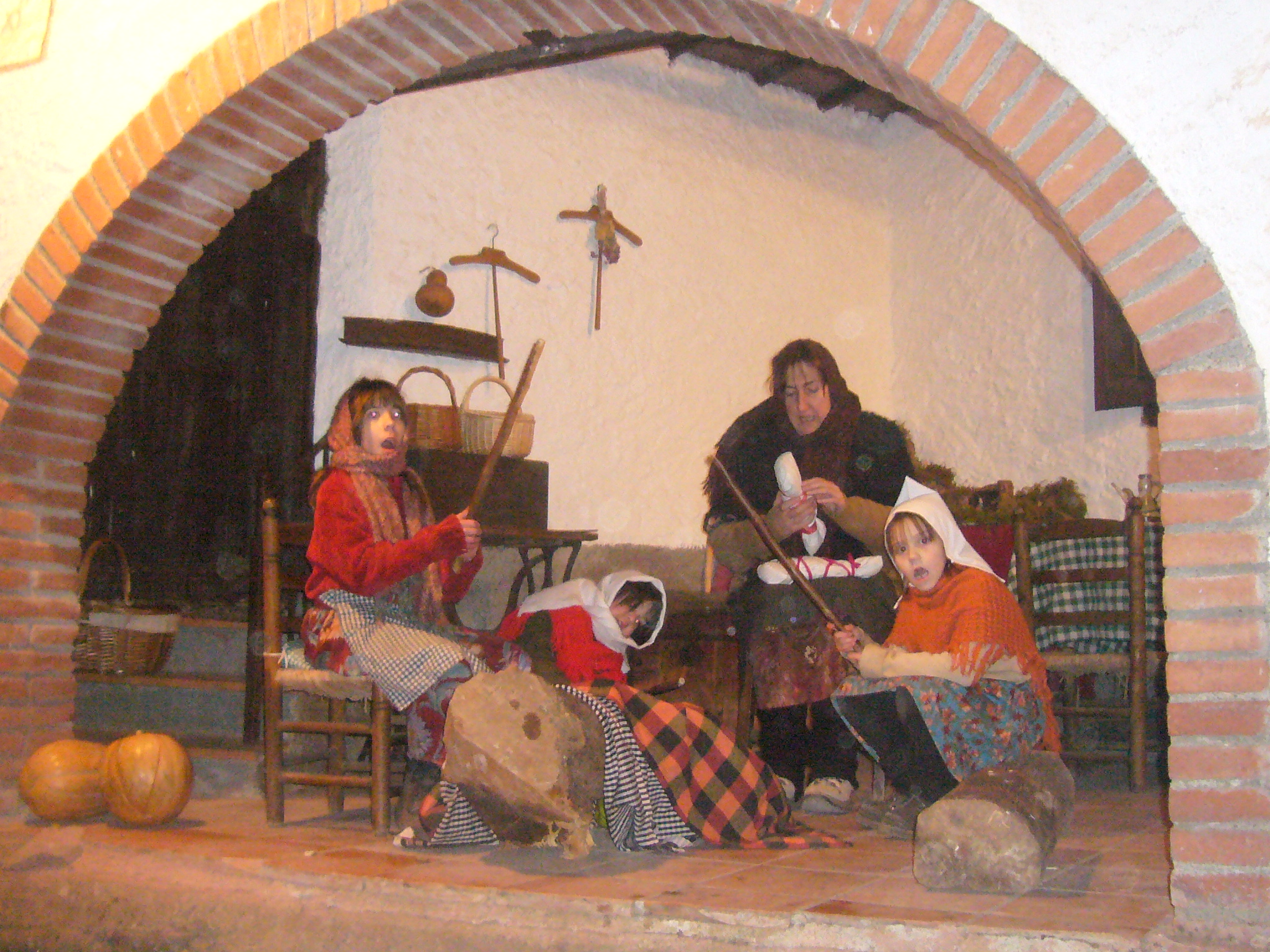 Pessebre Vivent de Corbera de Llobregat. Scene with girls and the "Tió de Nadal".